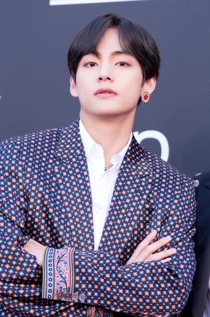 V on the Billboard Music Awards red carpet, 1 May 2019